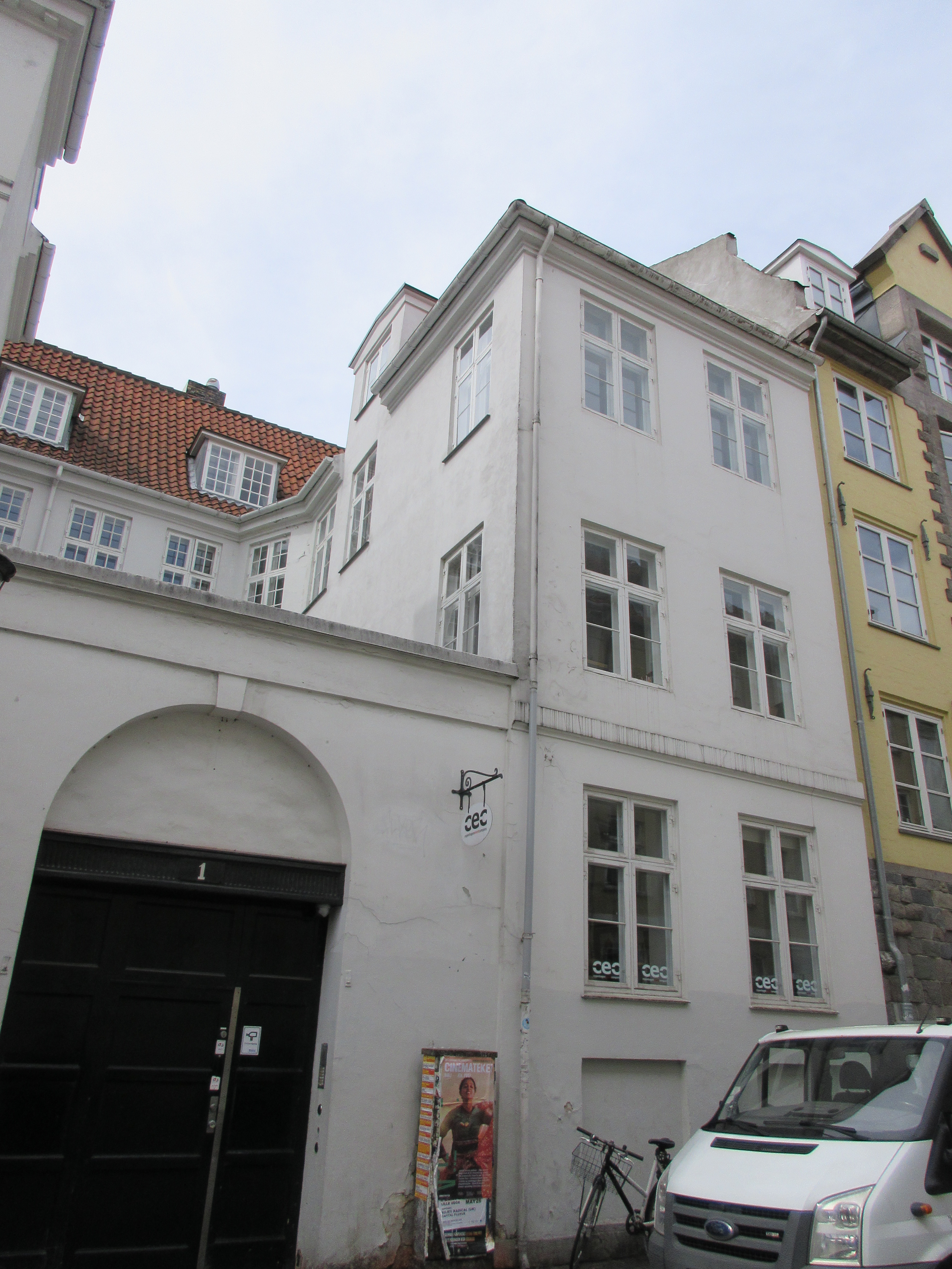 Larsbjørnsstræde 1 in Copenhagen, Denmark